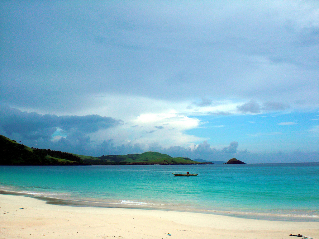 Calaguas Island, Camarines Norte, Philippines